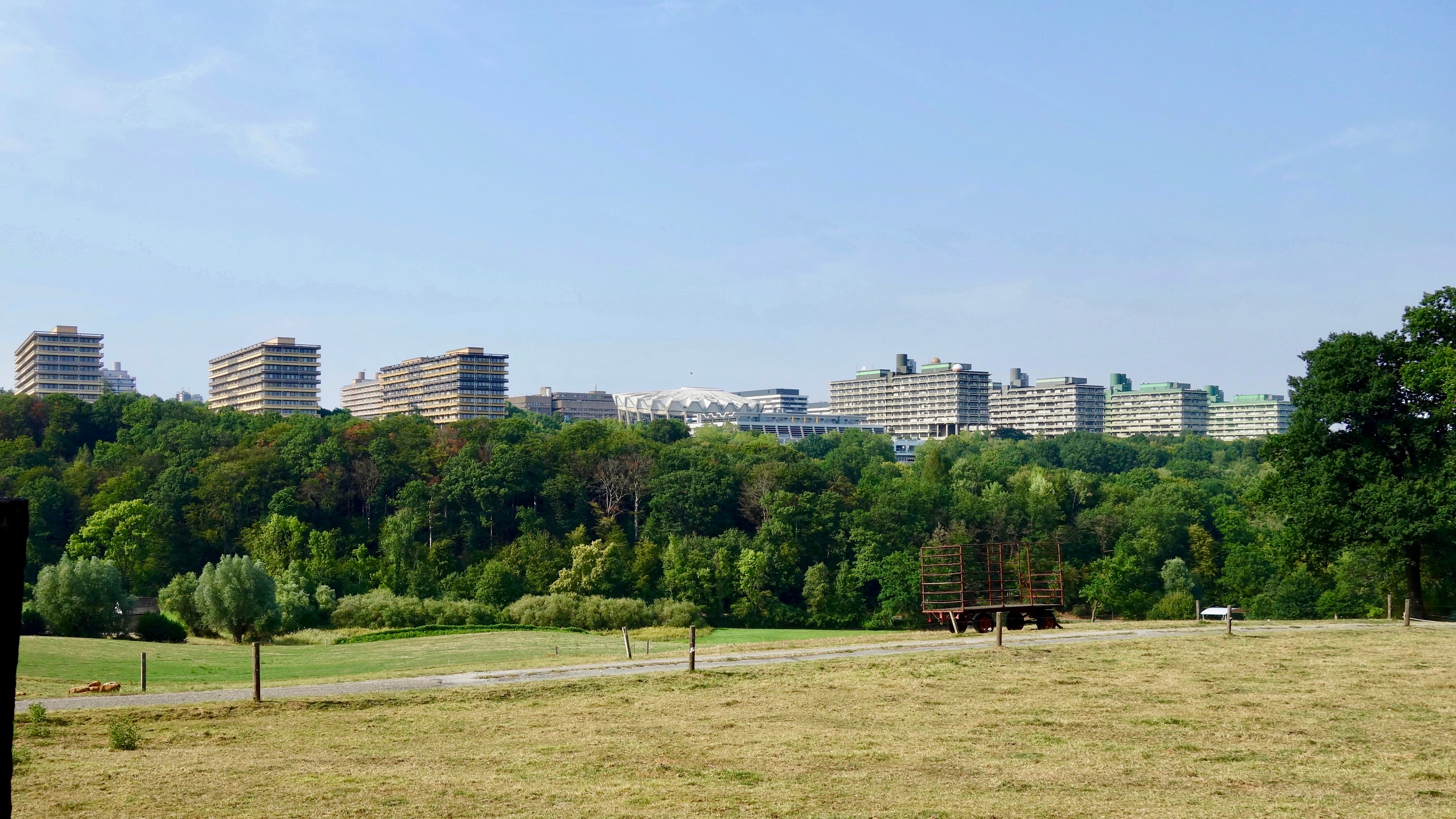 Picture of the Ruhr University from Bochum-Stiepel. Captured in end-July of 2019.